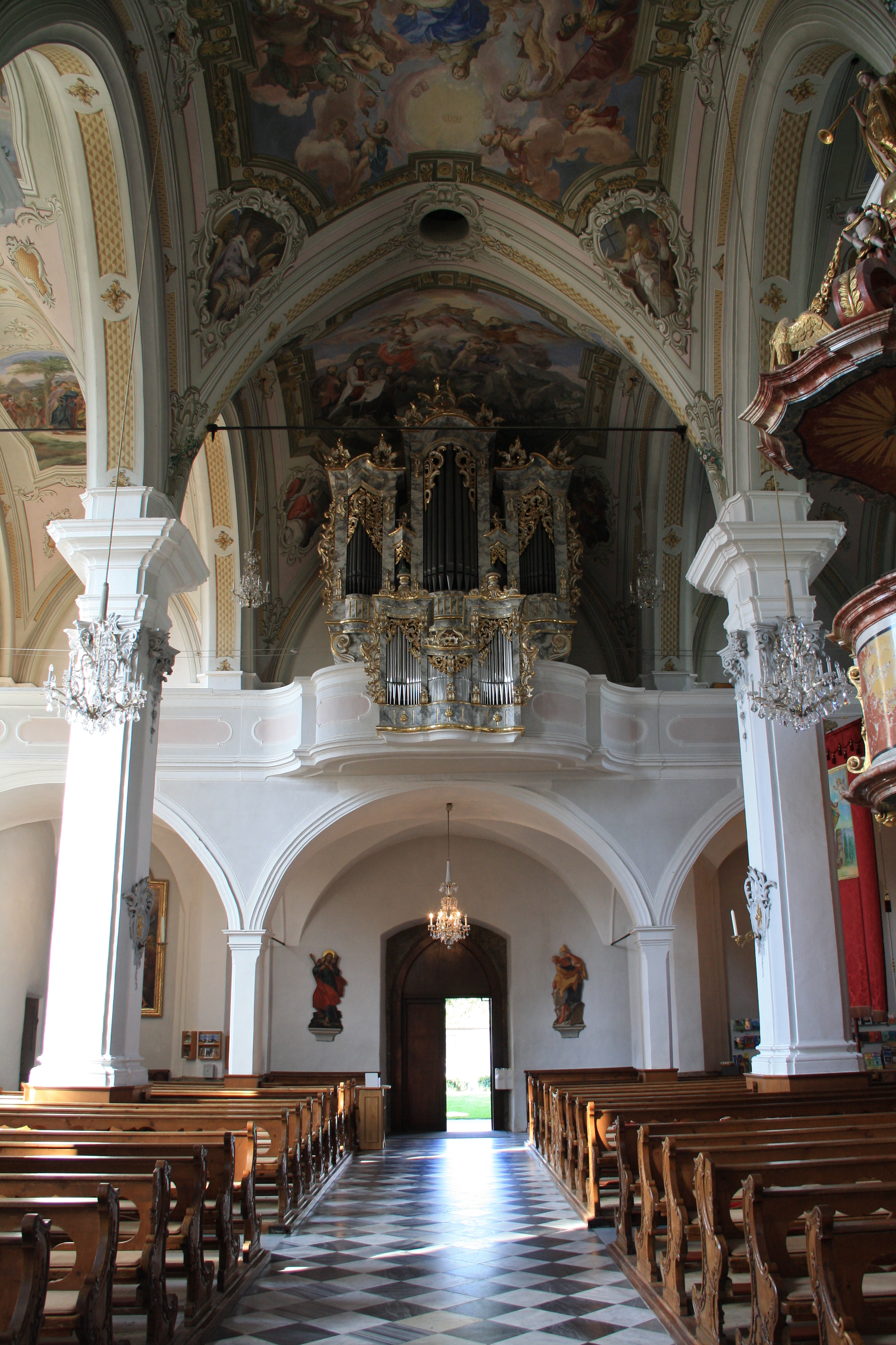 Austria, Tyrol (state), Absam. The Basilica central nave toward the entrance.